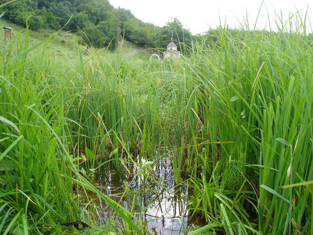 Sini Viroj (Blue Swamps) wetlands in Ohrid region, Macedonia